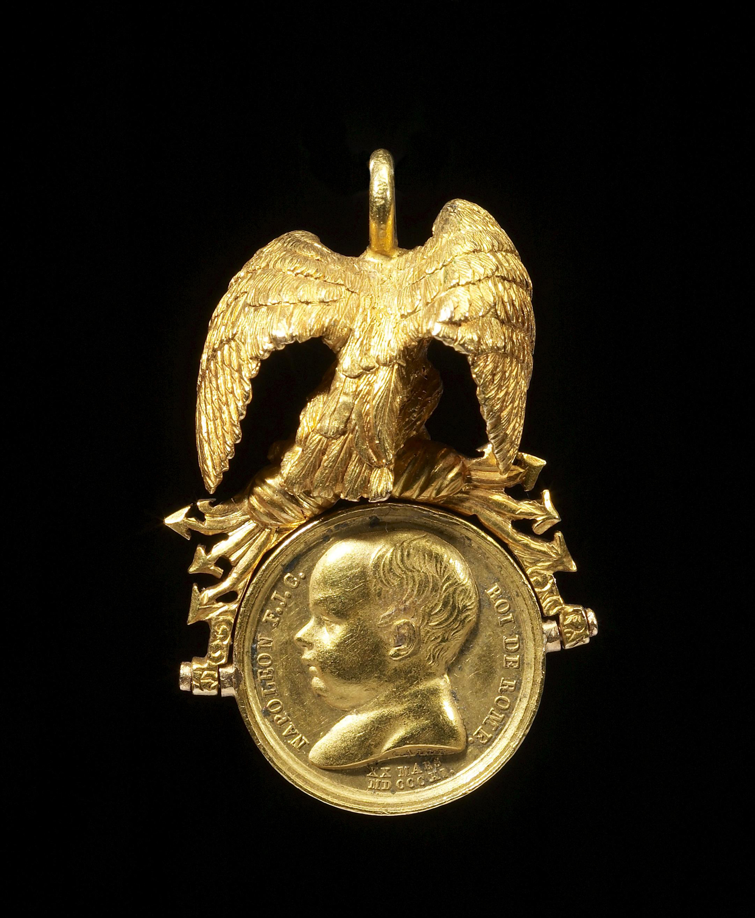 A gold eagle grasps in its talons thunderbolts between which hangs a medal by Bertrand Andrieu and André Galle commemorating the birth of the "King of Rome," in 1811. On the obverse of the medal are the double portraits of Napoleon I and Marie Louise and, on the reverse, the portrait of their infant son, Napoleon Francis Joseph Charles (1811-1832), the "King of Rome."